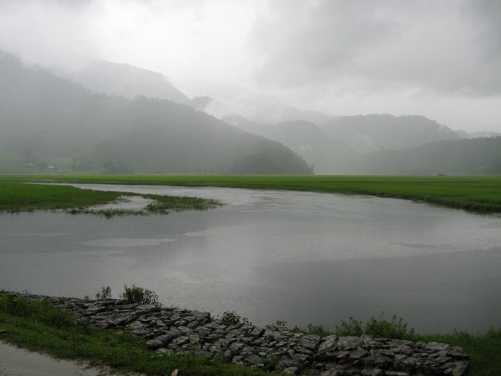 Pipara Simara, in Bara District, Nepal (just south of Pathlaiya)